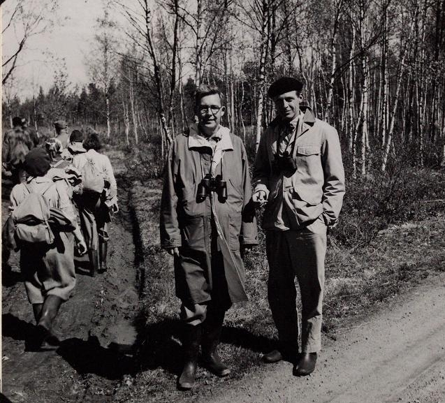 Robert Winthrop Storer (20 September 1914 – 14 December 2008) - 6753 Robert W. Storer (left) with George Wall Merck (d. 1984) at Pekori, Finland 14 June 1958 - Alexander Wetmore album courtesy of Smithsonian Institution